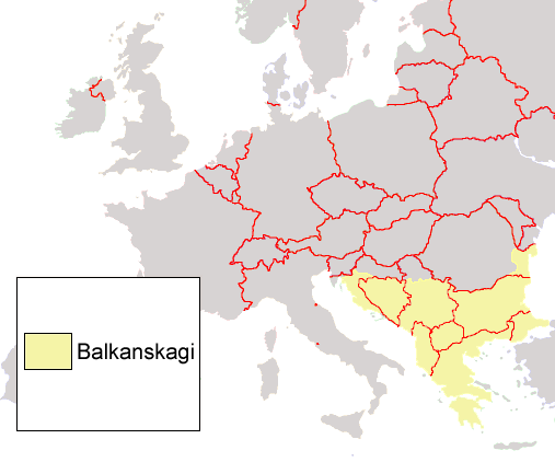 Icelandic version based on Boraczek's map Translation by me.